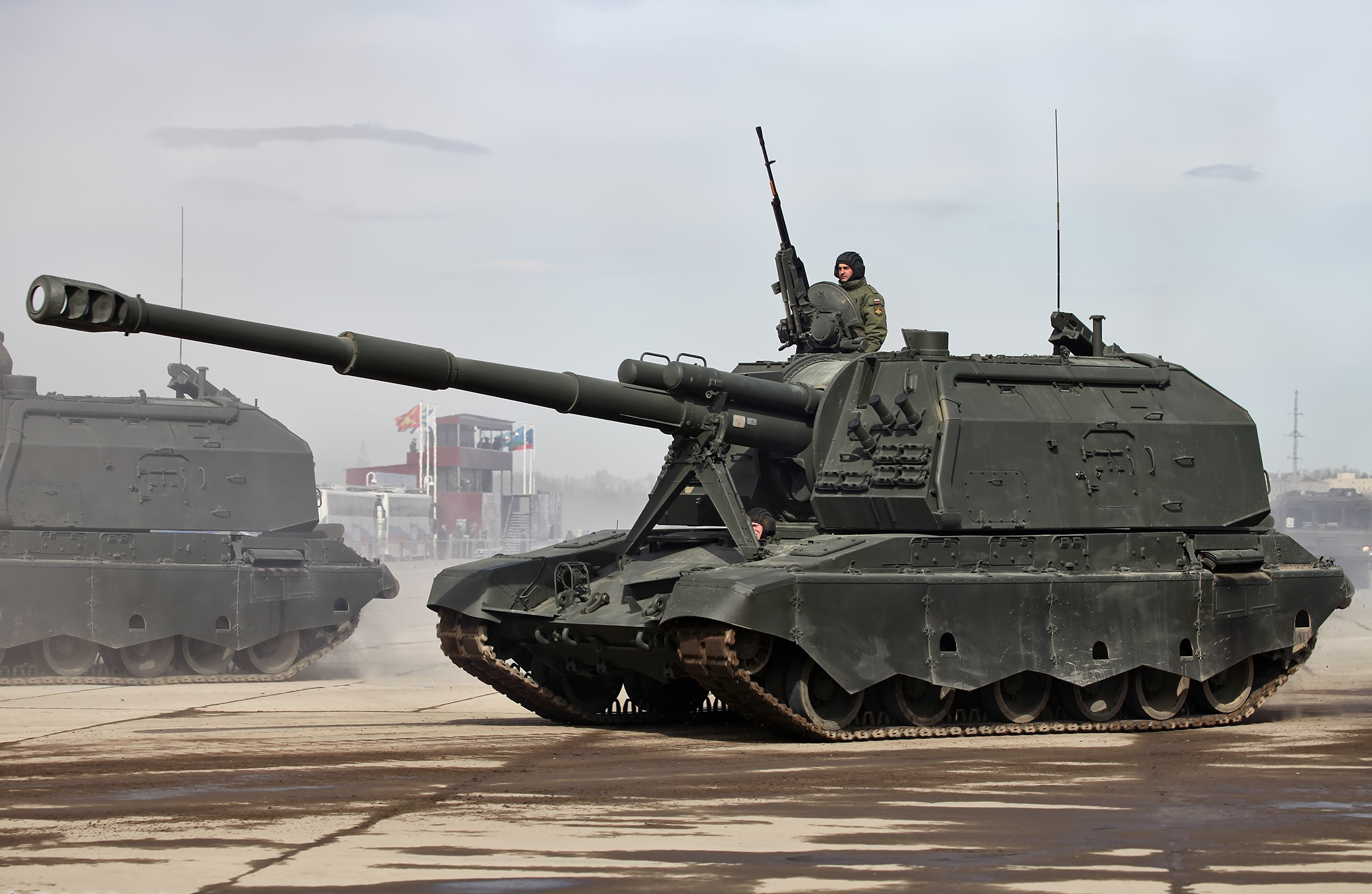 2S19M2 Msta-S SPH